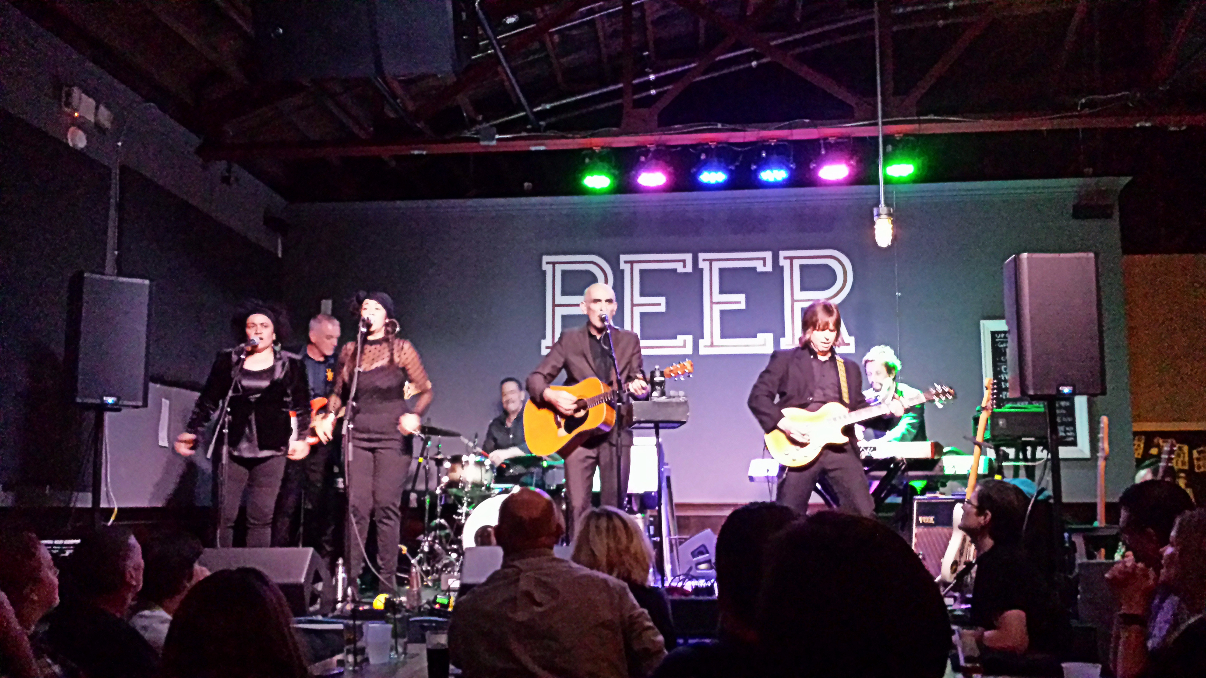 Paul Kelly and his band performing in Raleigh NC on 26 September 2017.